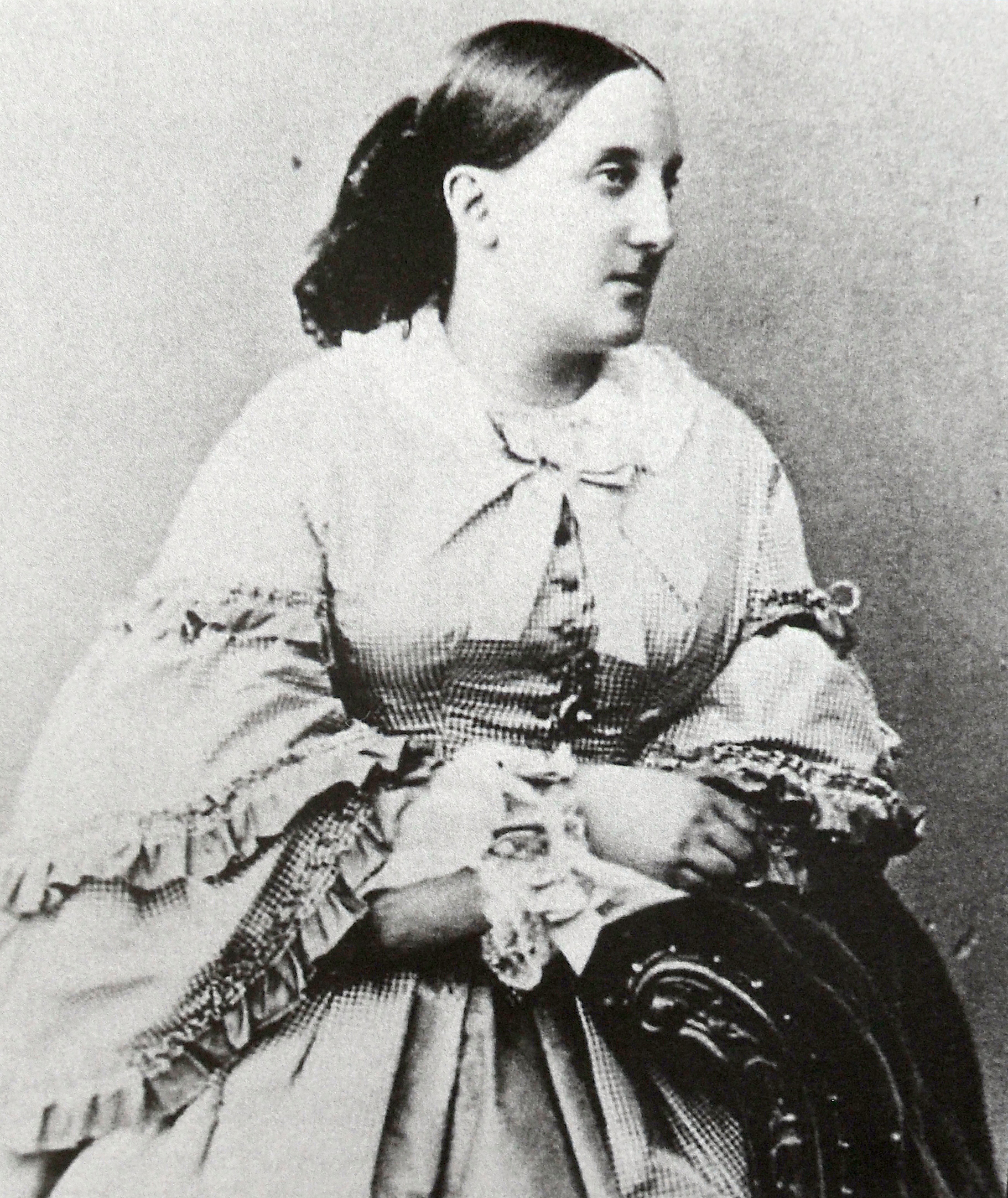 Grand Duchess Maria Nikolaievna, Duchess of Leuchtenberg